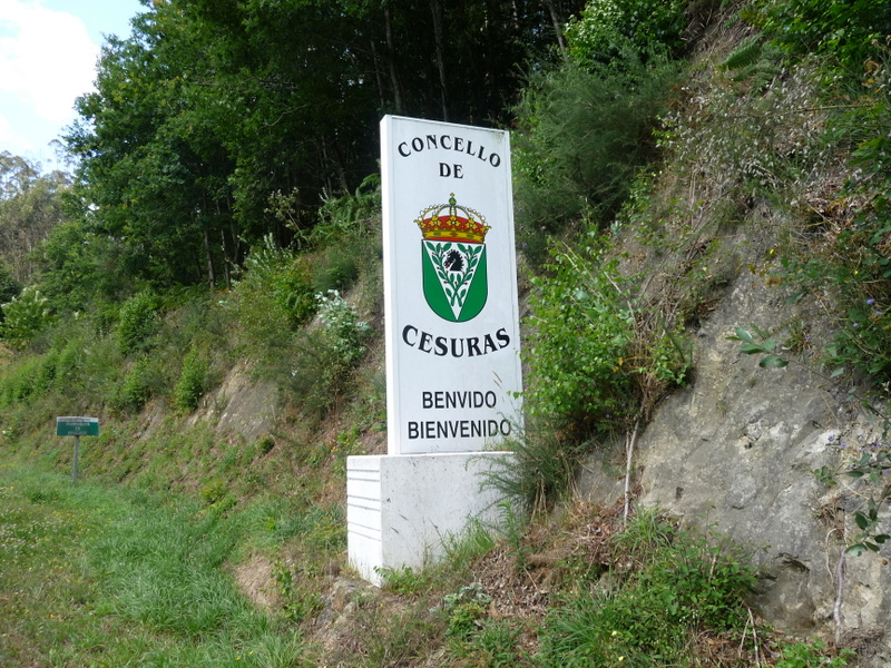 TRABAJO PROPIO